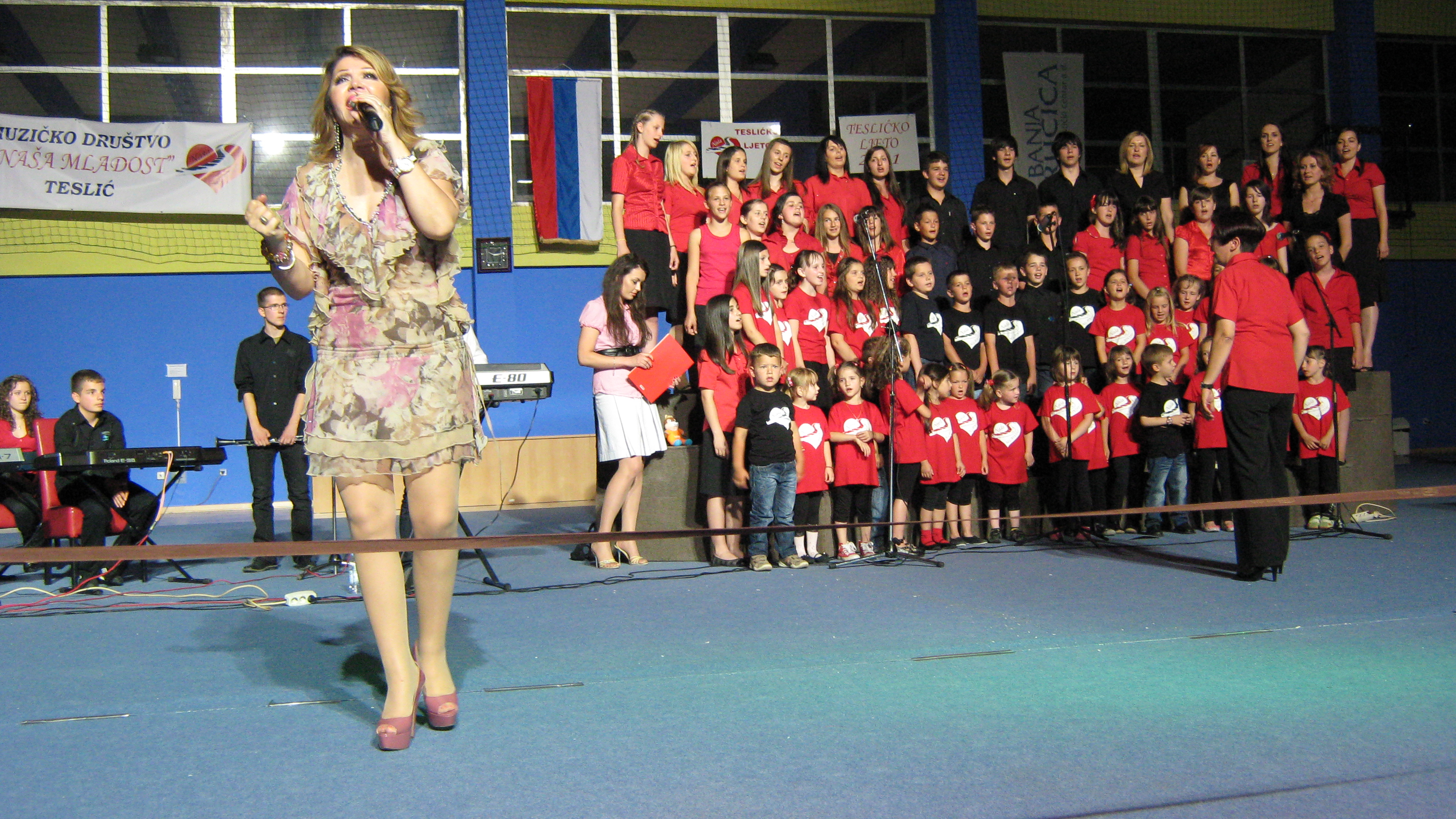 Neda Ukraden, Serbian singer, in Teslic, in 2011.